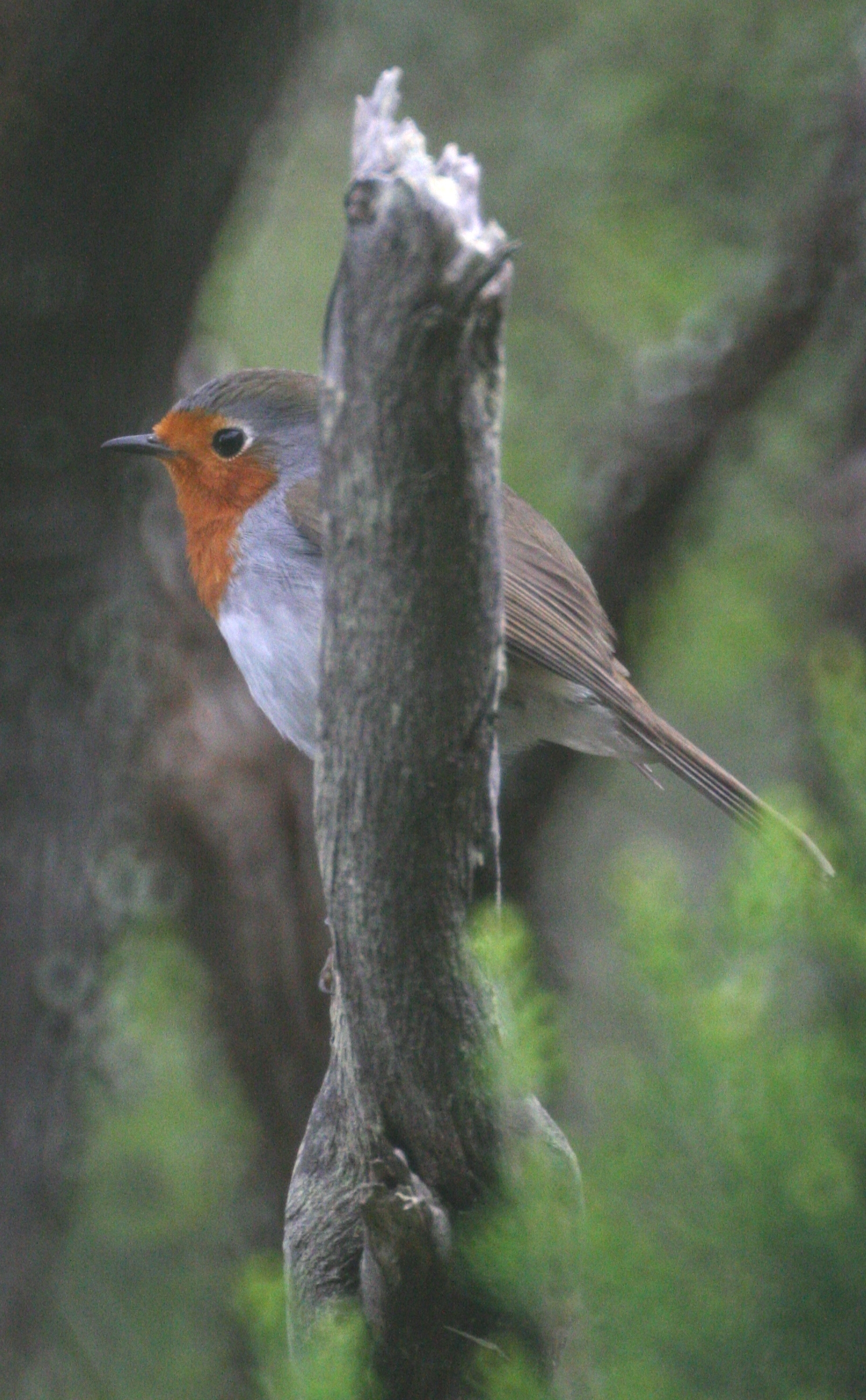 European Robin (Tenerife subspecies), Anaga Mountains, Tenerife